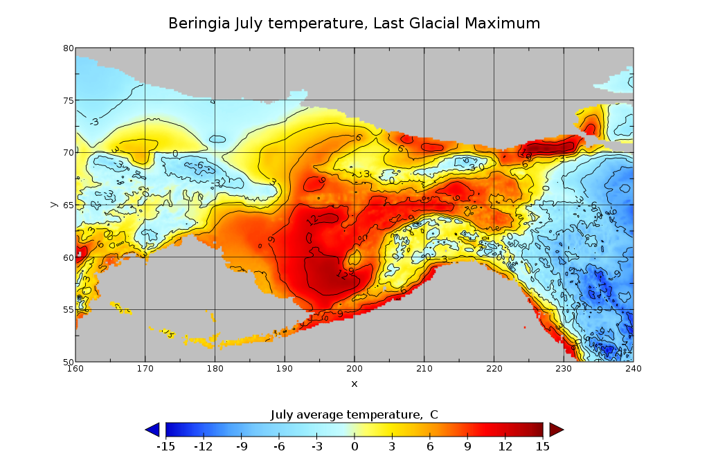 Temperature map of July, in Beringia, according of climate simulatio.